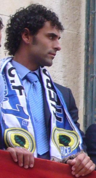 Abraham Paz (with microphone in hand) on the balcony of the City of Alicante during the celebrations for the rise of Hercules C. F. to First division in 2009/10 season.